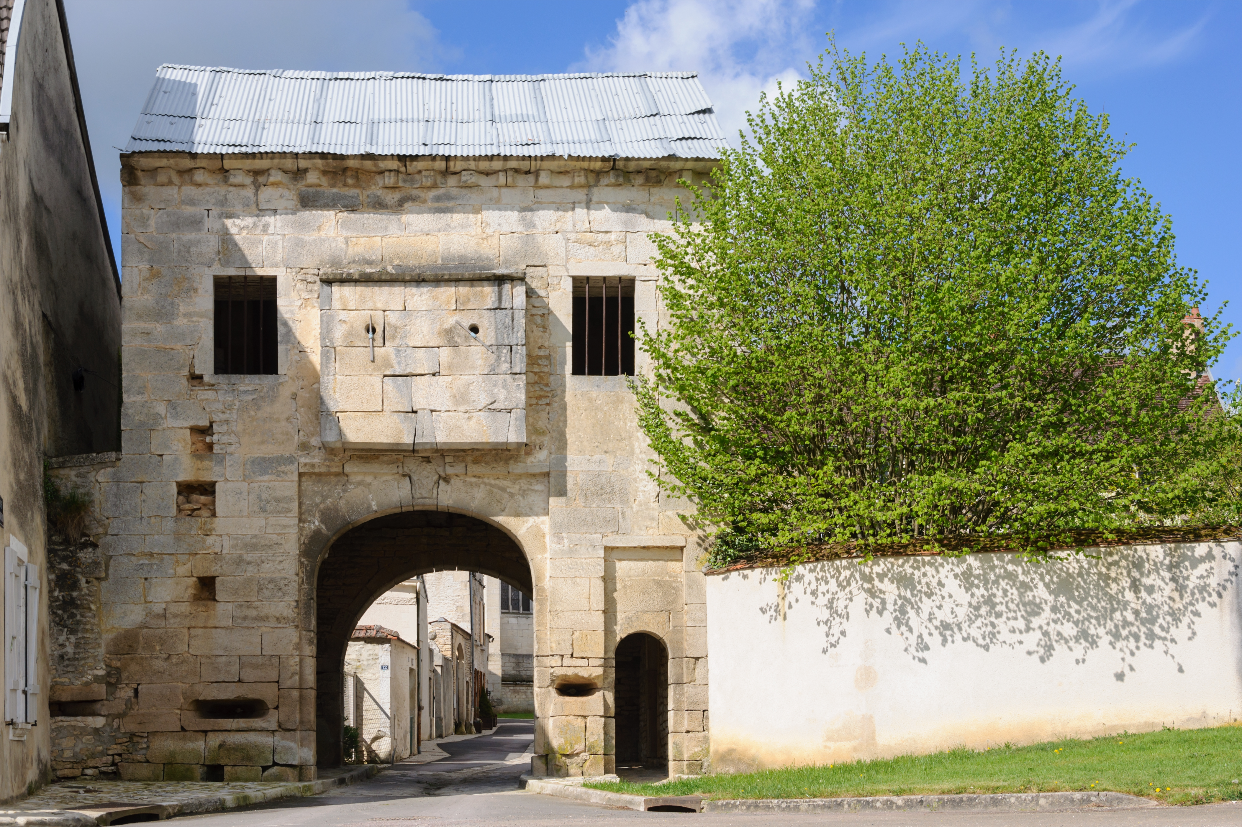 The fortified gate (16th-century) of Nuits (Burgundy, France).